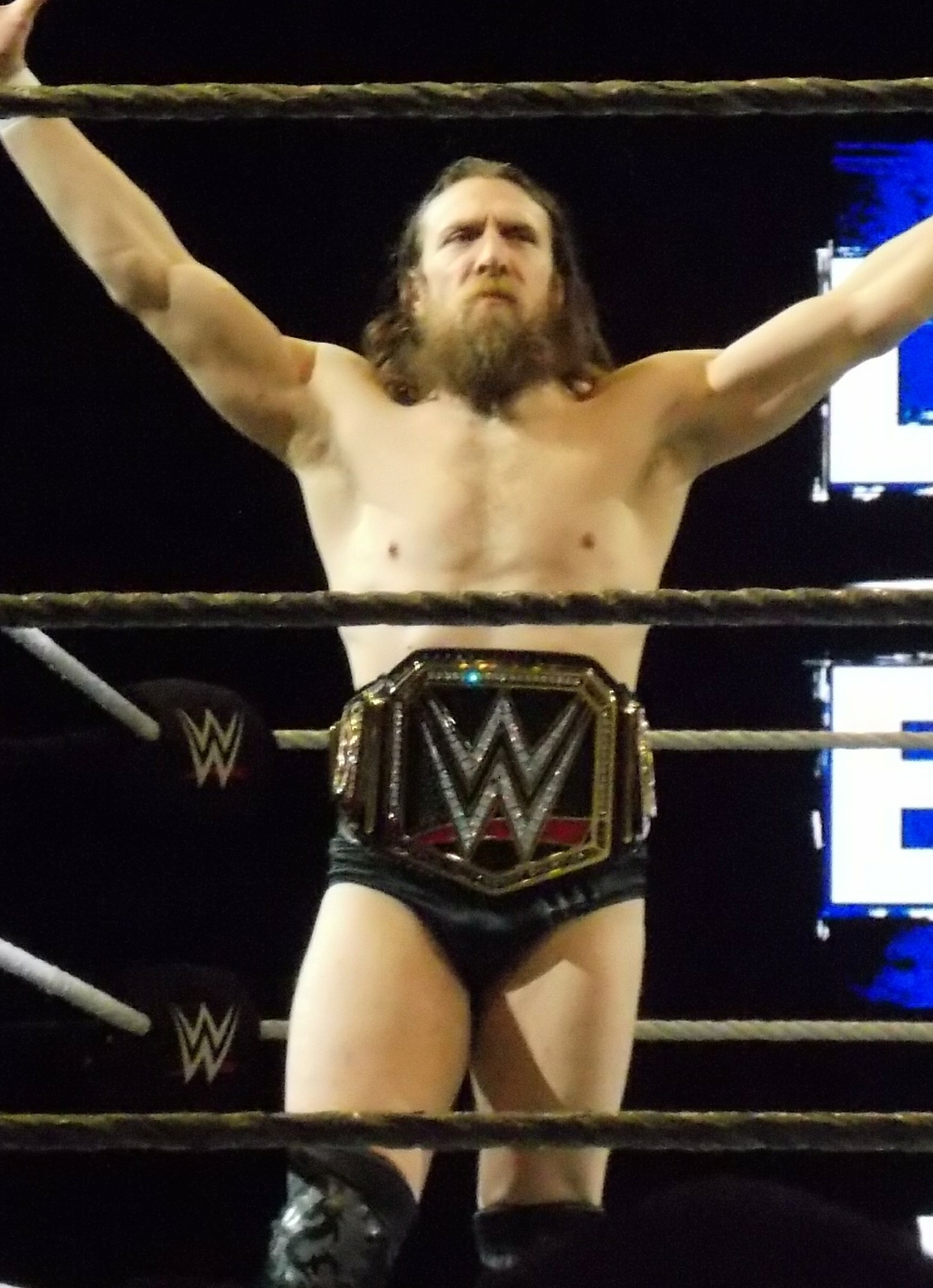 WWE Champion Daniel Bryan at a WWE Live Event House Show in Omaha, Nebraska, USA on Sunday, January 20, 2019